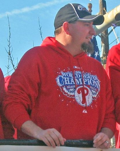 Joe Blanton, Scott Eyre and Ryan Madson atop a float during the Philadelphia Phillies' 2008 World Series parade